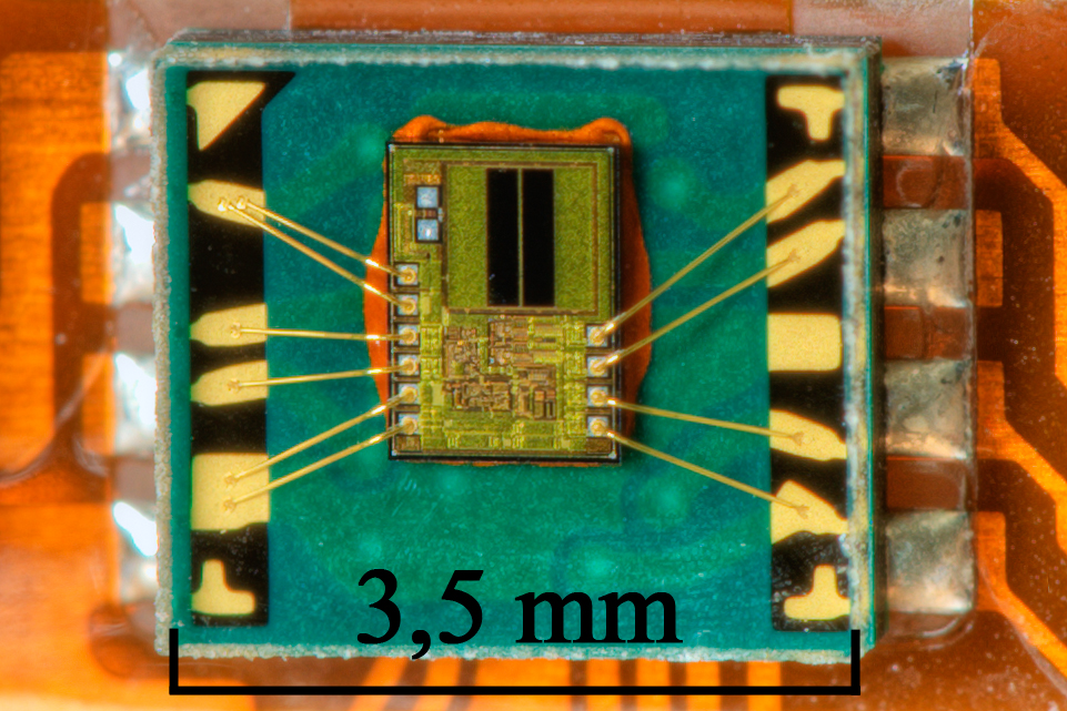 Photodetector of an DVD drive